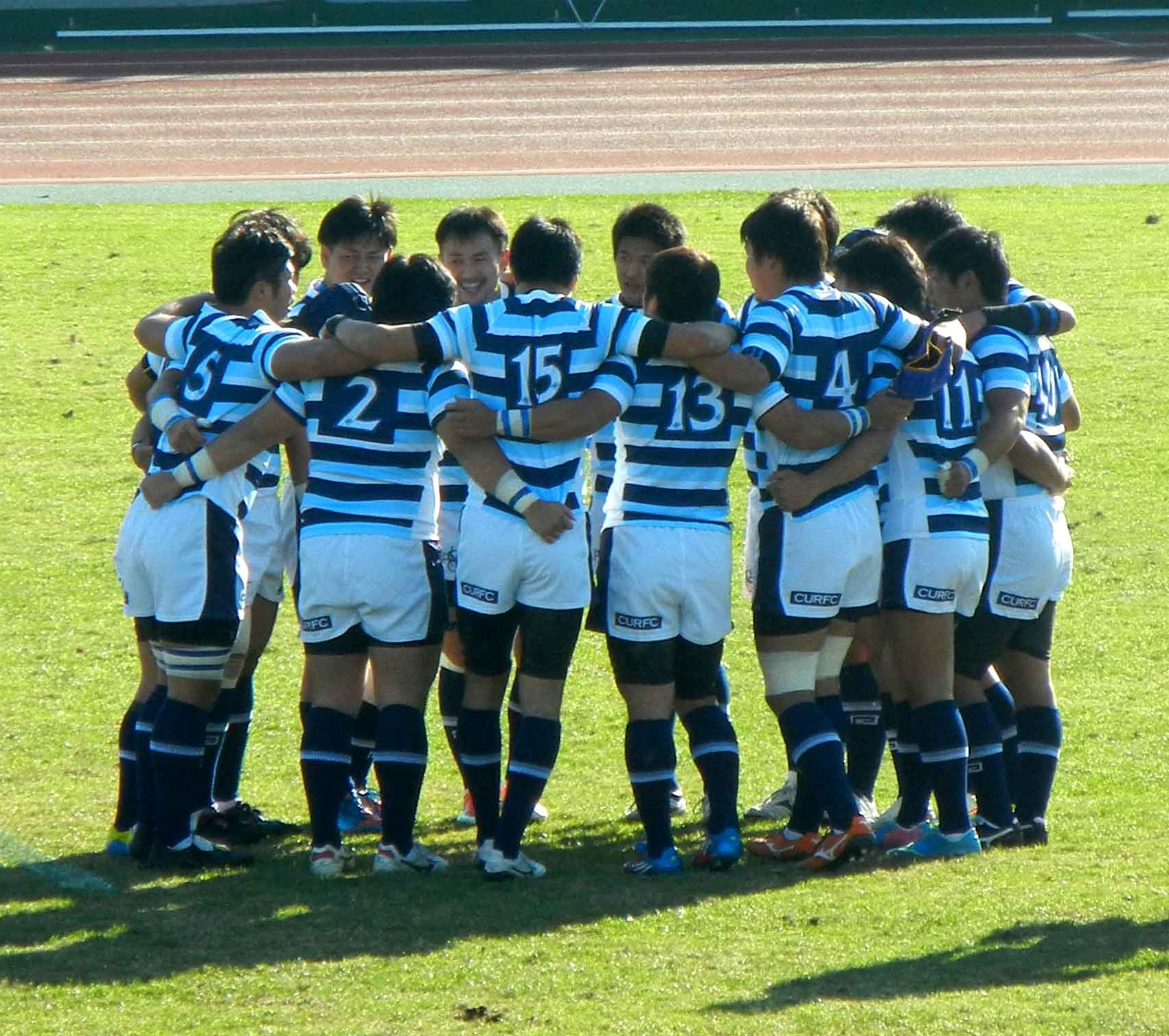 Chuo University Rugby Football Team Players